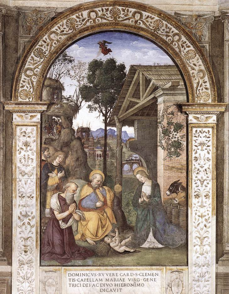 PINTURICCHIO Adoration of the Christ Child Wood Santa Maria del Popolo, Rome